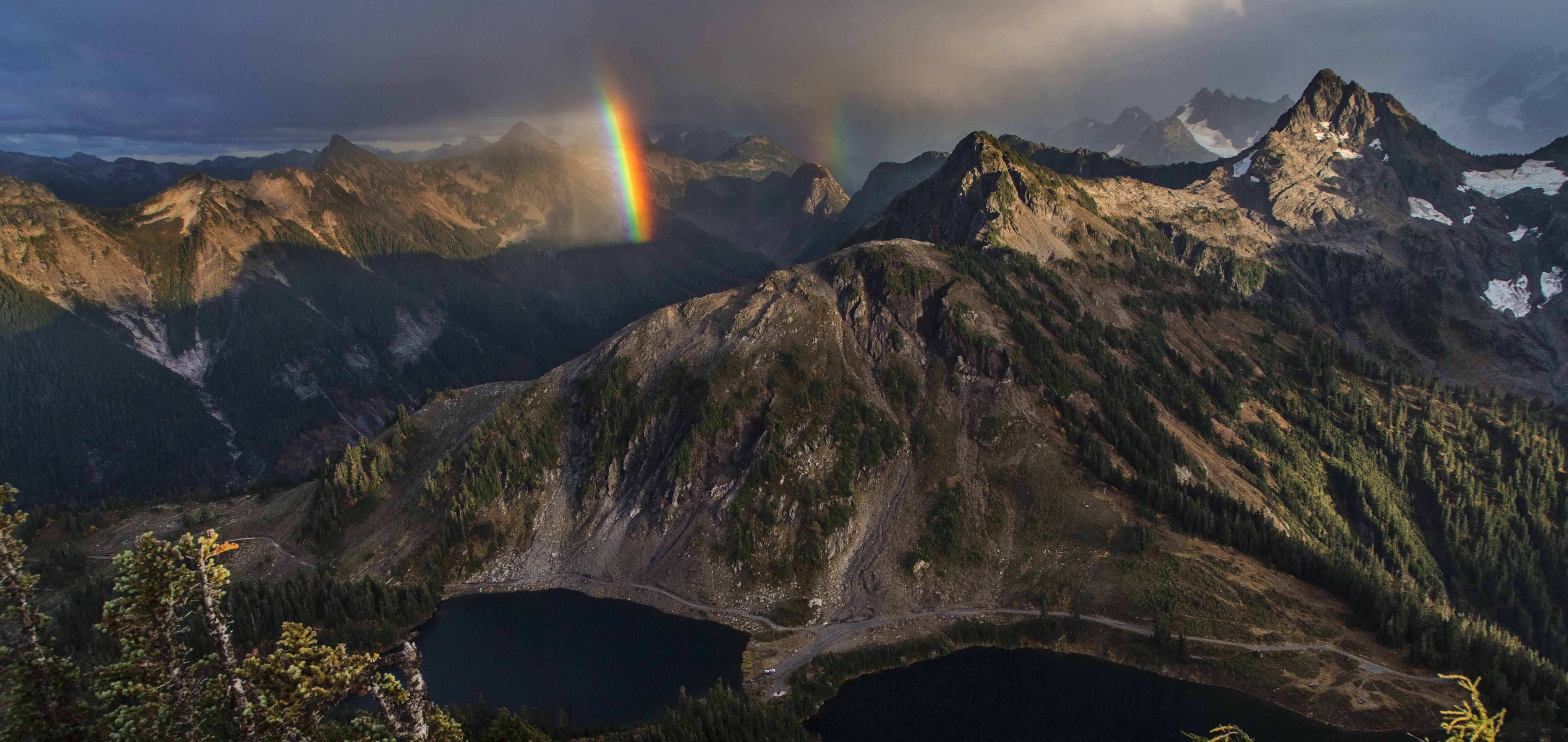 Twin Lakes Rainbow by Andy Porter, Mt Baker Snoqualmie National Forest